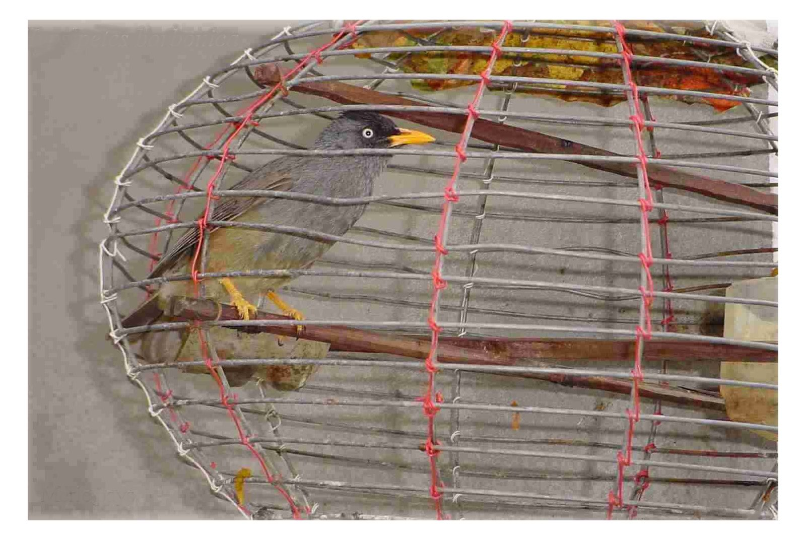 Endemic bird (Hypsipetes borbonica) from Reunion Island